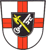 Coat of Arms of Villmar